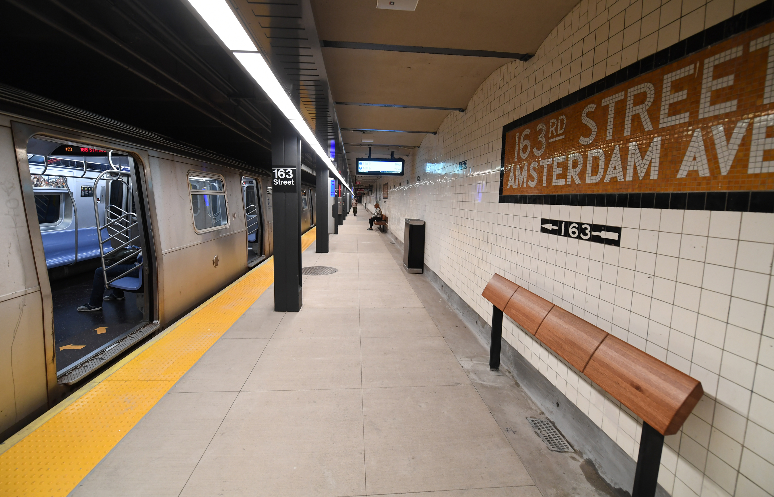 MTA New York City Transit announced the reopening of he 163 St-Amsterdam Av station on the C line on Thursday, September 27, 2018. Station improvements include lighting, wayfinding, structural enhancements, and glass mosaics by artist Firelei Baez. Photo: Marc A. Hermann / MTA New York City Transit